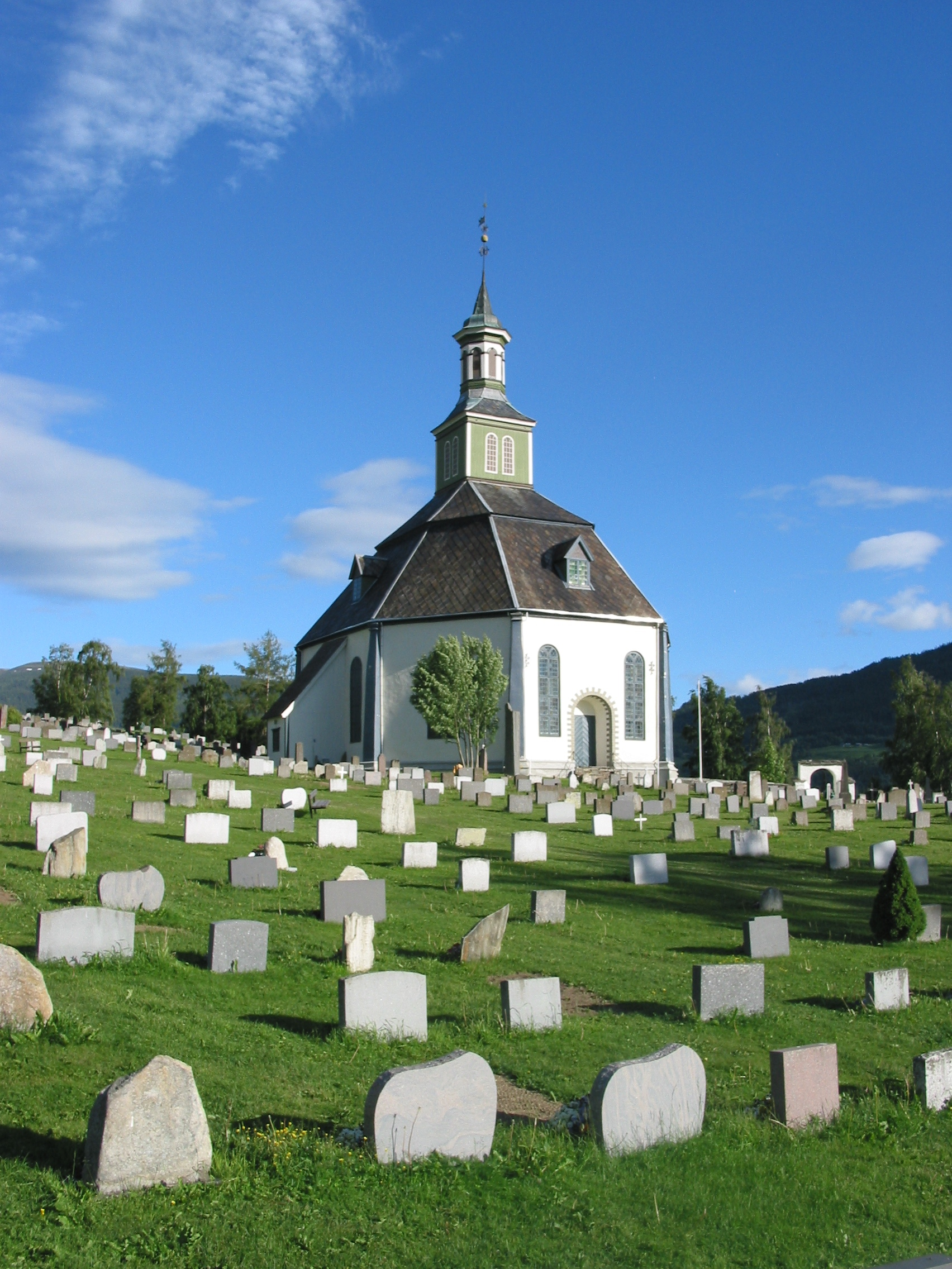 Sør-Fron church seen from the west, June 2008.